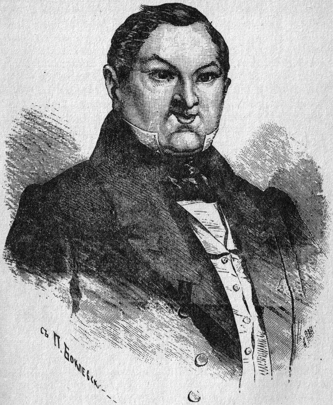 Chichikov. Illustration for Nikolai Gogol's Dead Souls.